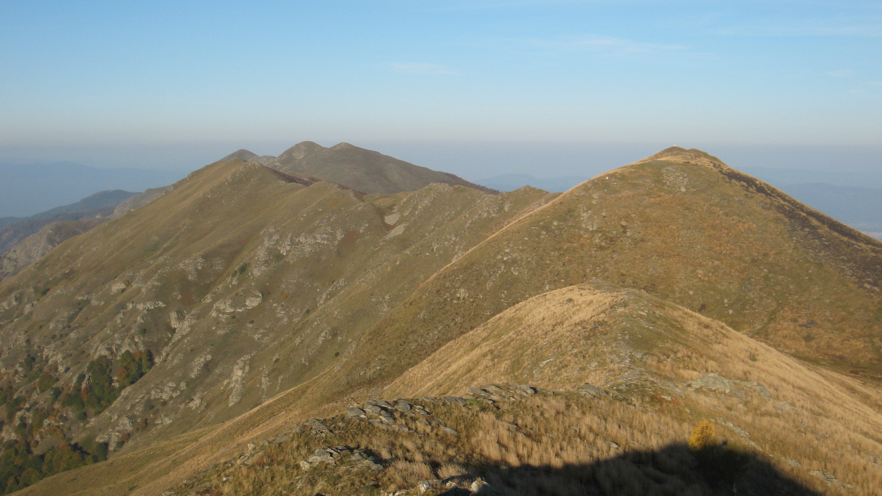 Looking along the main ridge of the Belasitsa range, from somewhere in the vicinity of Tumba. Probably looking west, given the location of the shadows.